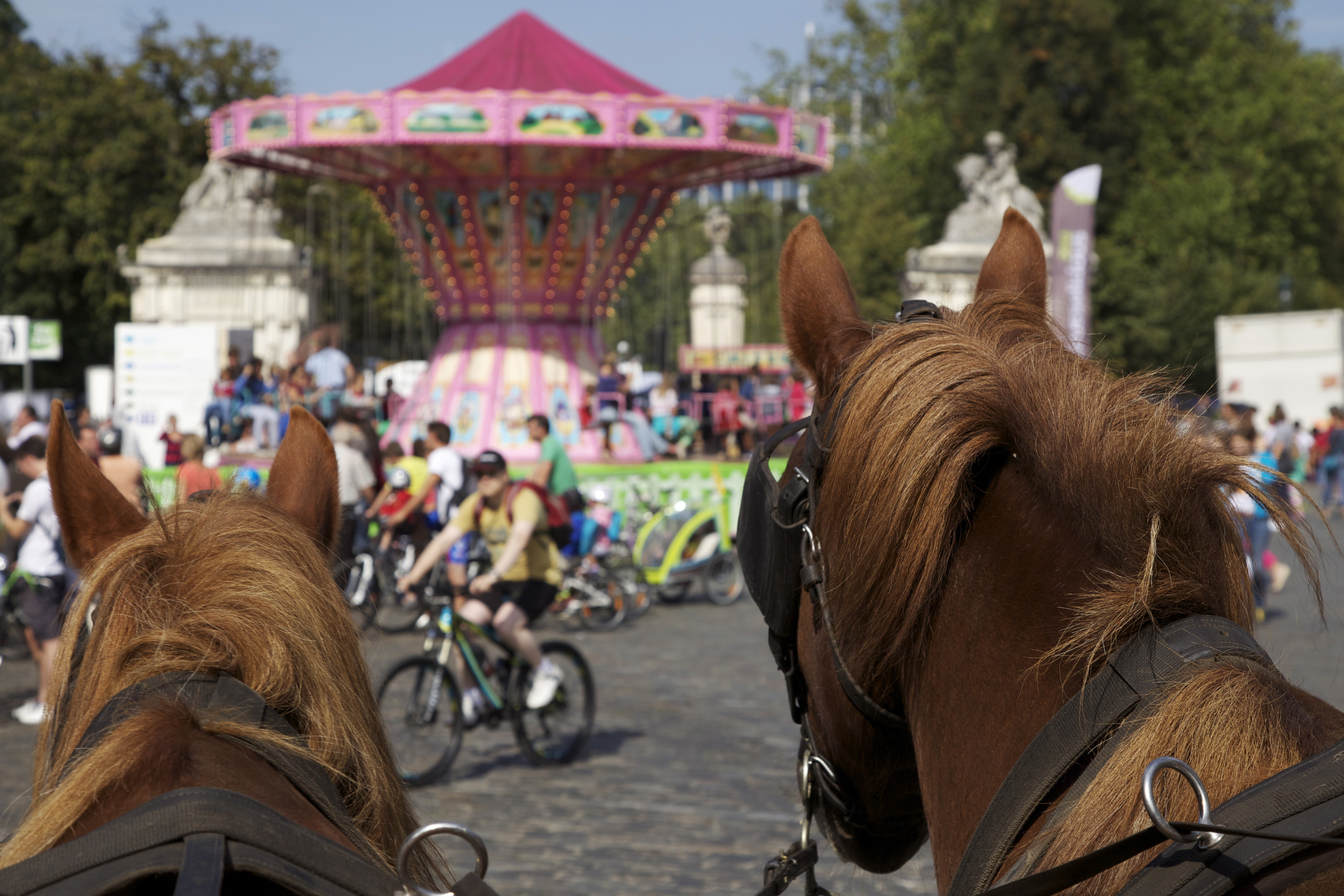 Animations Bruxelles Champetre